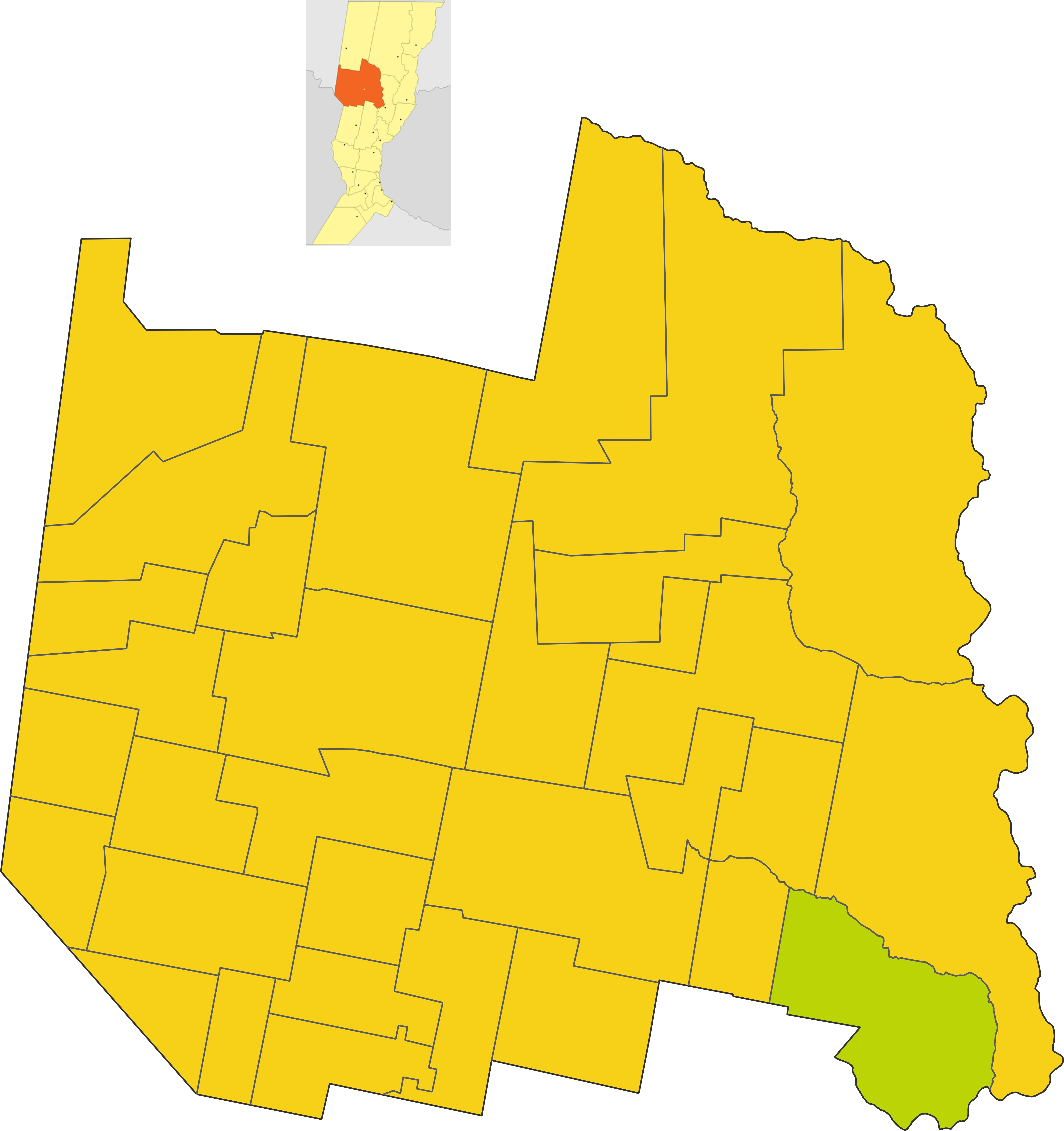 Map of the comuna de Soledad in San Cristobal department, Santa fe province, Argentina